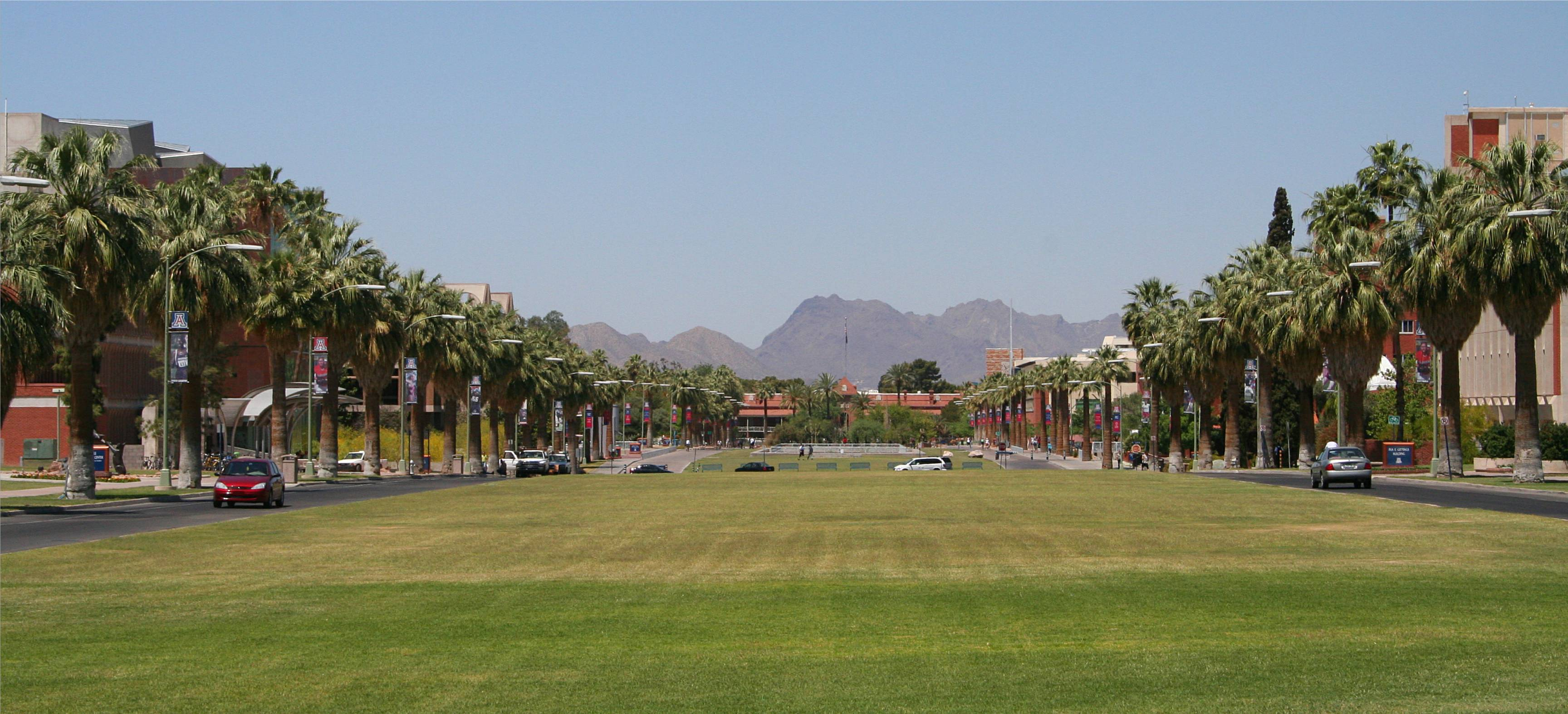 University of Arizona front lawn. \